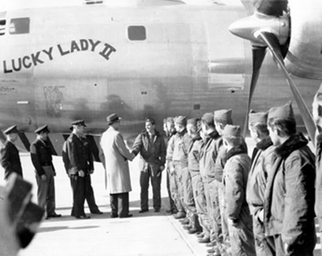 Lucky Lady II crew members are greeted by Air Force Secretary Stuart Symington and General Hoyt Vandenberg following the first non-stop flight around the world. (Carswell AFB, Ft. Worth, Texas)